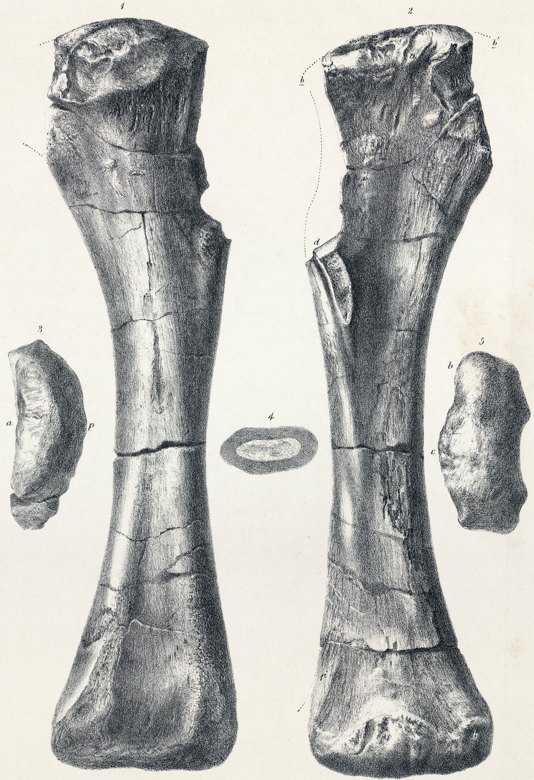 Holotype right humerus of Pelorosaurus Conybearii, one sixth natural size. Fig. 1. Back view. Fig. 2. Front view. Fig. 3. Proximal end. Fig. 4. Section of middle of shaft, showing the medullary cavity. Fig. 5. Distal end. From the Wealden of Tilgate Forest. British Museum.